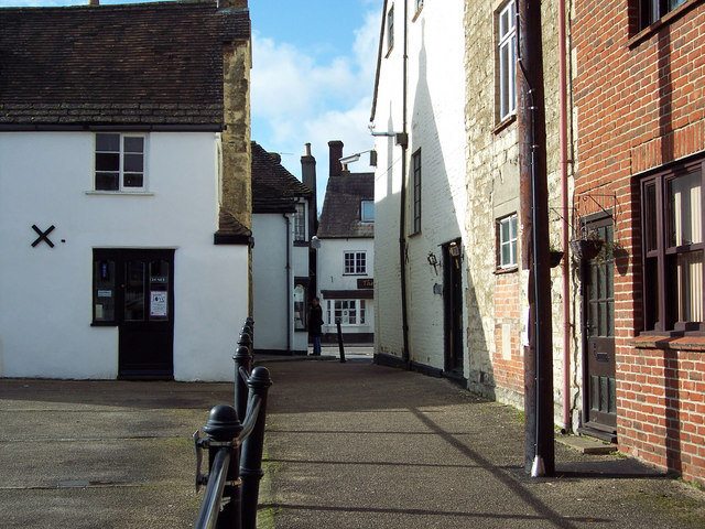 Alley in Sturminster Newton